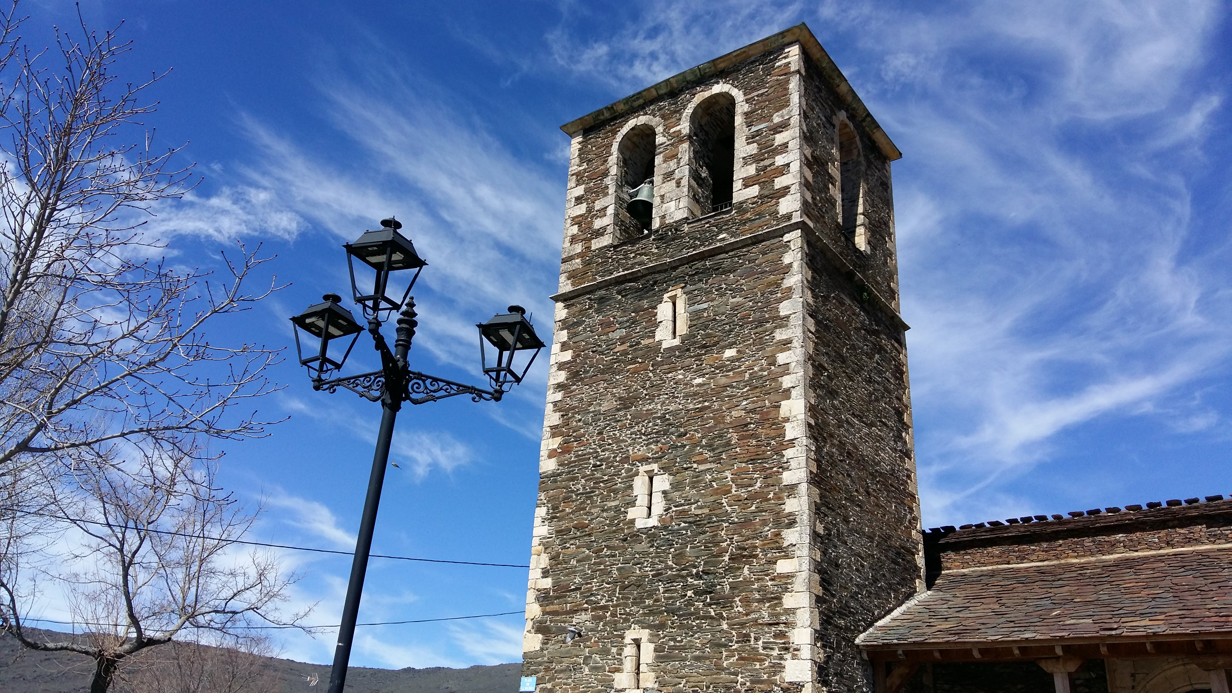 This is a photography of a Special Area of Conservation in Spain with the ID: ES0000164. Natura2000 entry, EEA entry